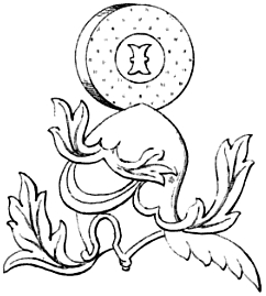 Pre-1863 drawing of 14th century heraldic crest of John, Lord Lysle, KG, one of the founder knights of the Order of the Garter, drawn from his garter-plate in St George's Chapel, Windsor: a mill-stone argent pecked sable the inner circle and the rim of the second the fer-de-moline or.